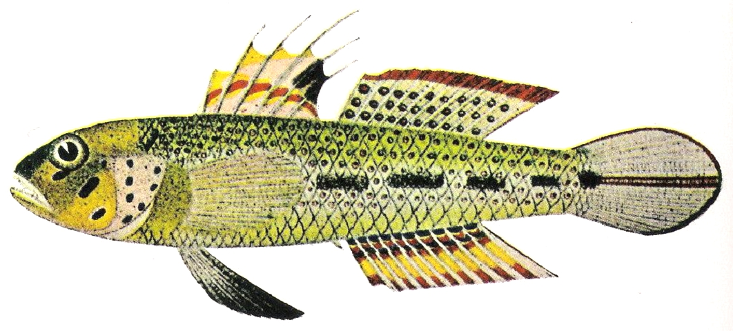 Oplopomus oplopomus (Valenciénnes 1837)